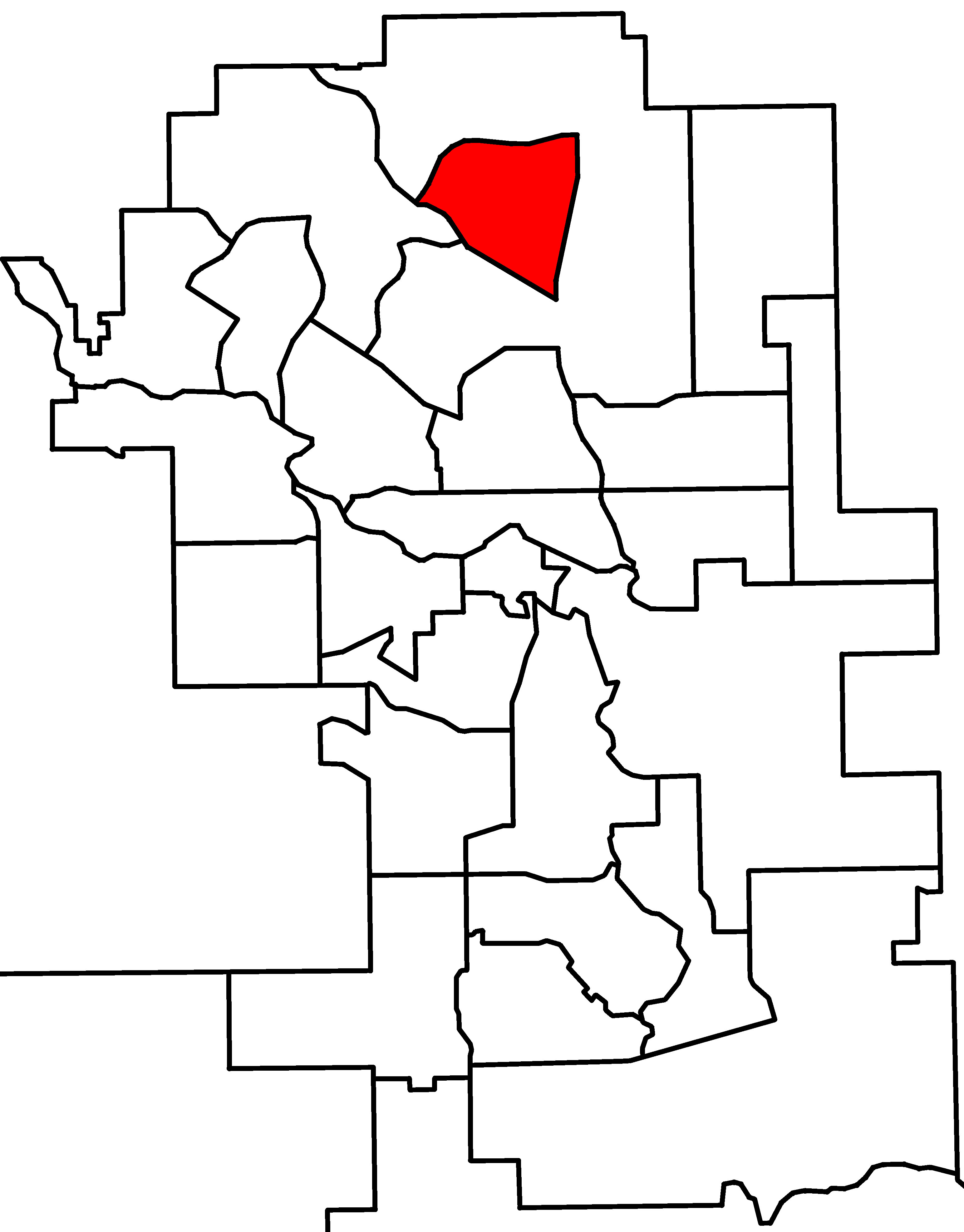 A map of Alberta provincial electoral districts, effective 2010, in the Calgary area. Calgary-Northern Hills is highlighted in red.